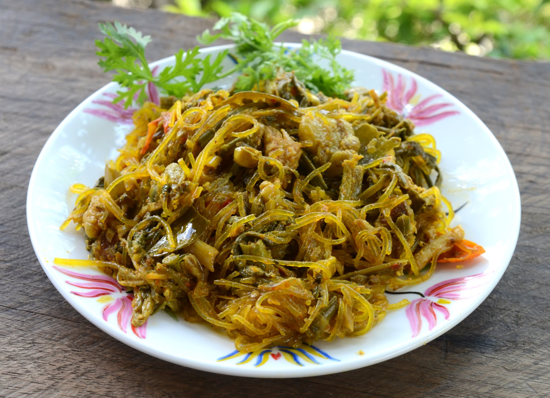 Kaeng ho (Thai script: แกงโฮะ) is a Northern Thai dish where one or more types of curry are refried with glass noodles and other ingredients such as kaffir lime leaves, lemongrass and bamboo shoots. At least one of the curries used in this recipe should be the Northern Thai pork curry called kaeng hangle.